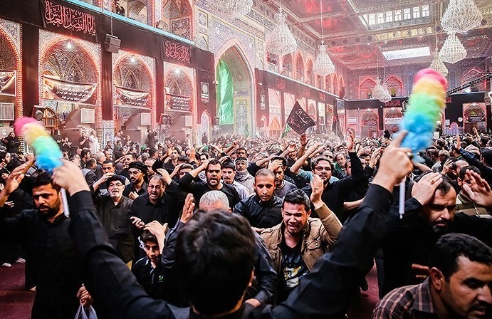 Ashura Mourning in Karabala, Iraq